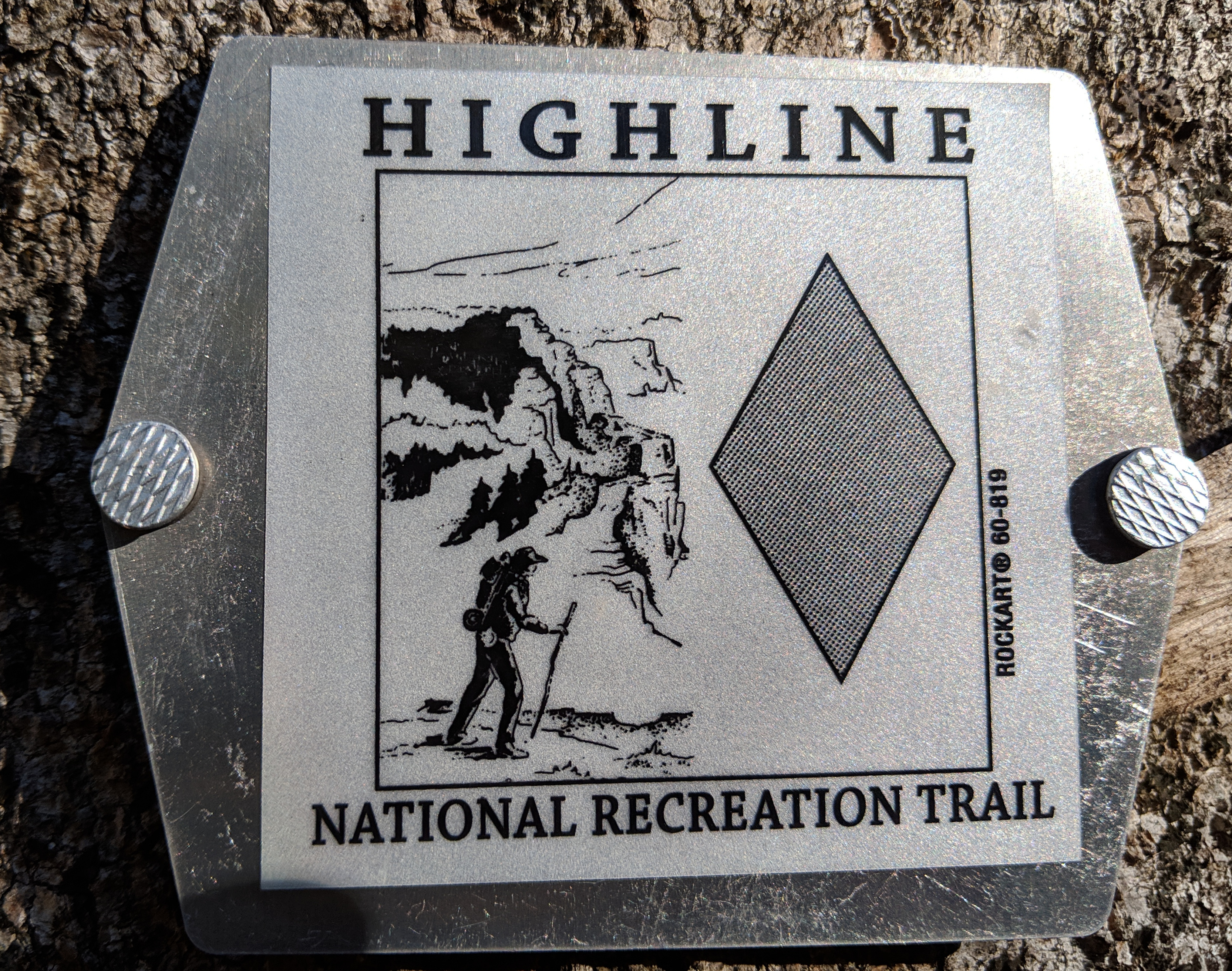 One of two common trail markers for the Highline National Recreation Trail.